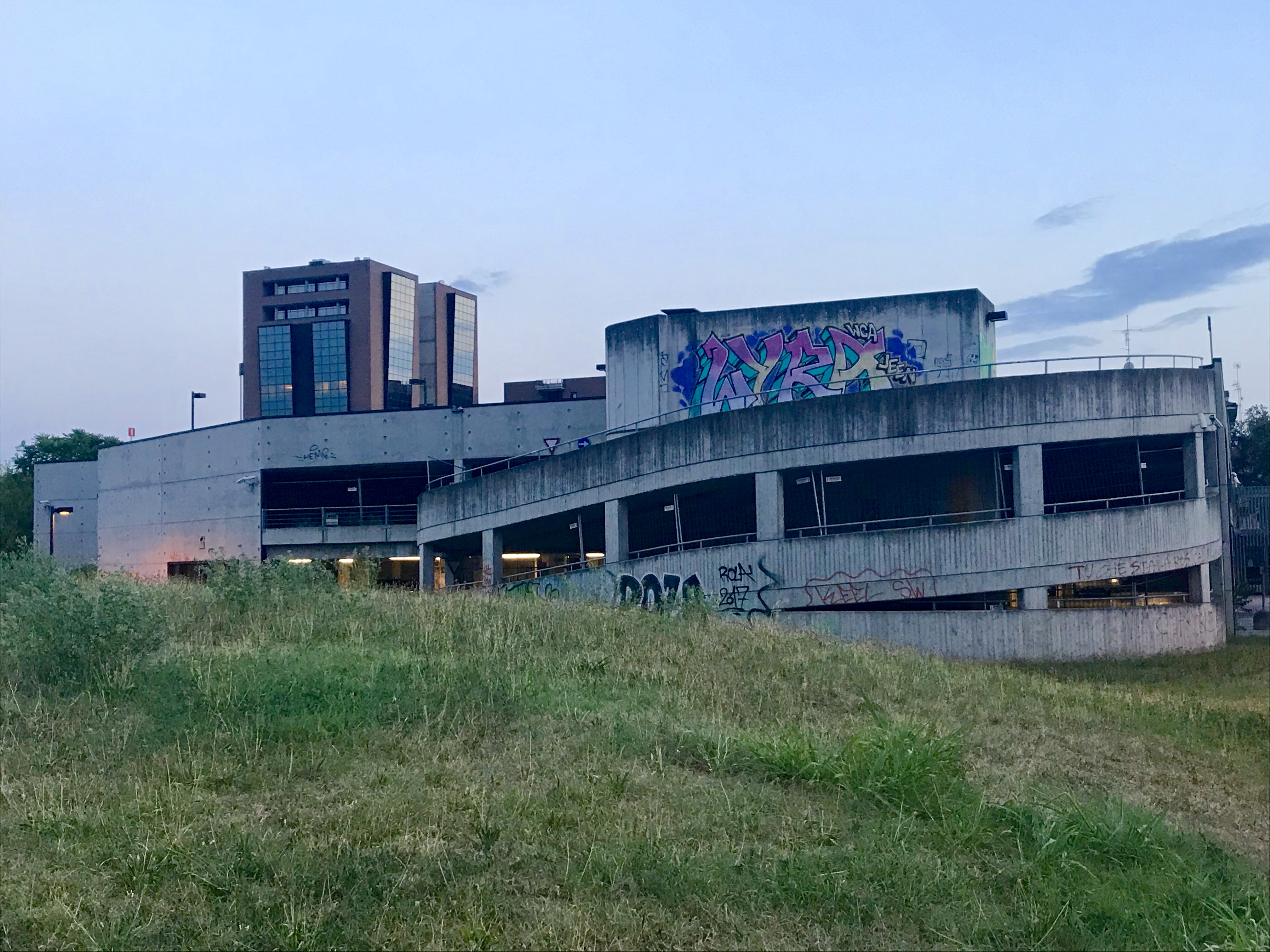 Gasometro parking lot, Reggio Emilia, Italy